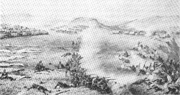 "The closing stages of the battle of Kambula. A company of the 1/13th in the foreground are driving the Zulus back into the ravine." Author: Orlando Norie (1832-1901) Source: Barthorp, Michael. The Zulu War: A Pictorial History.